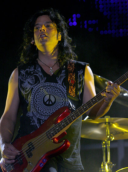 PavelMancivoda.jpg